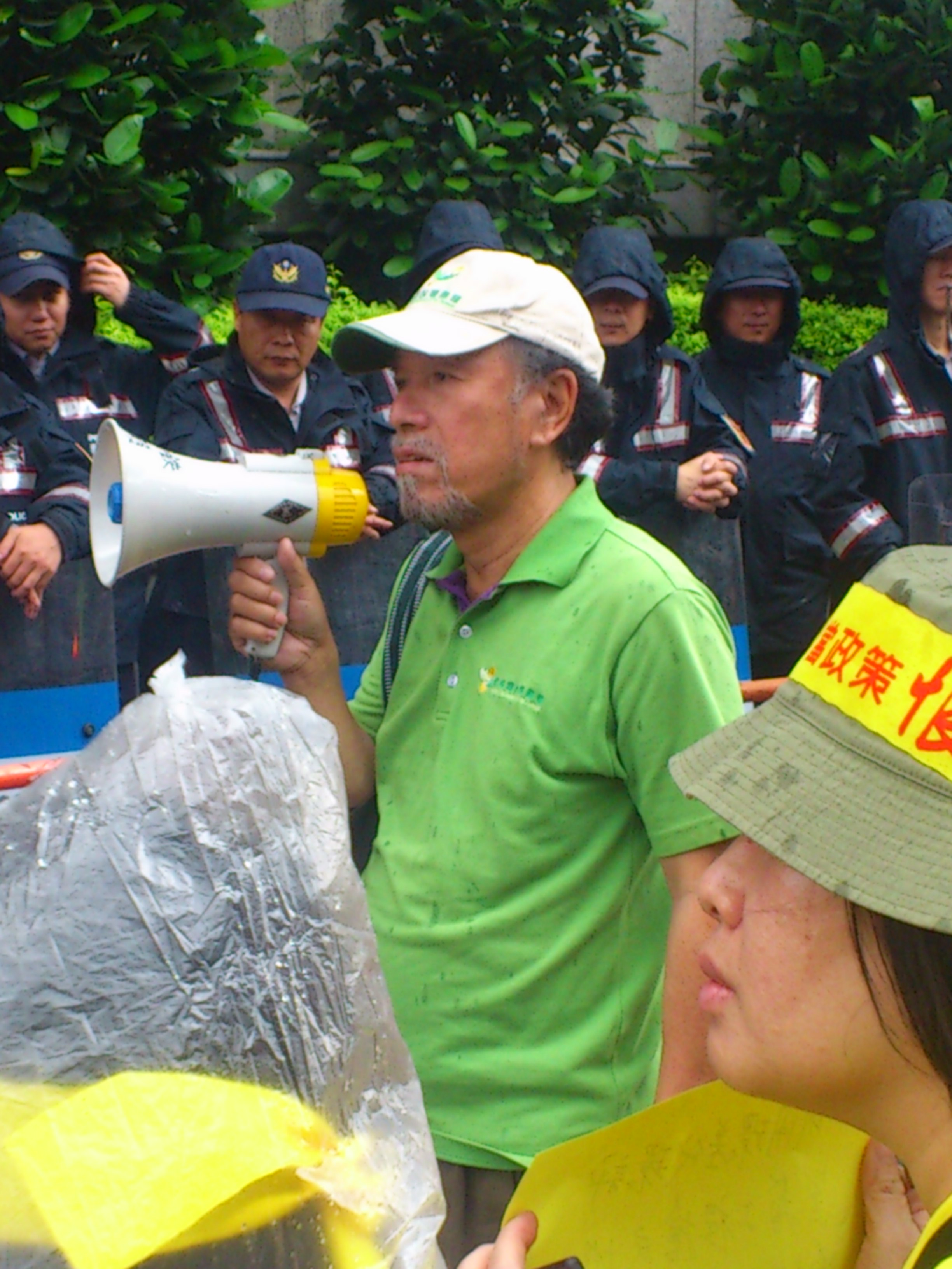 Tsay Ting-kuei spoke in front of Ministry of Transportation and Communications, Republic of China (Taiwan).